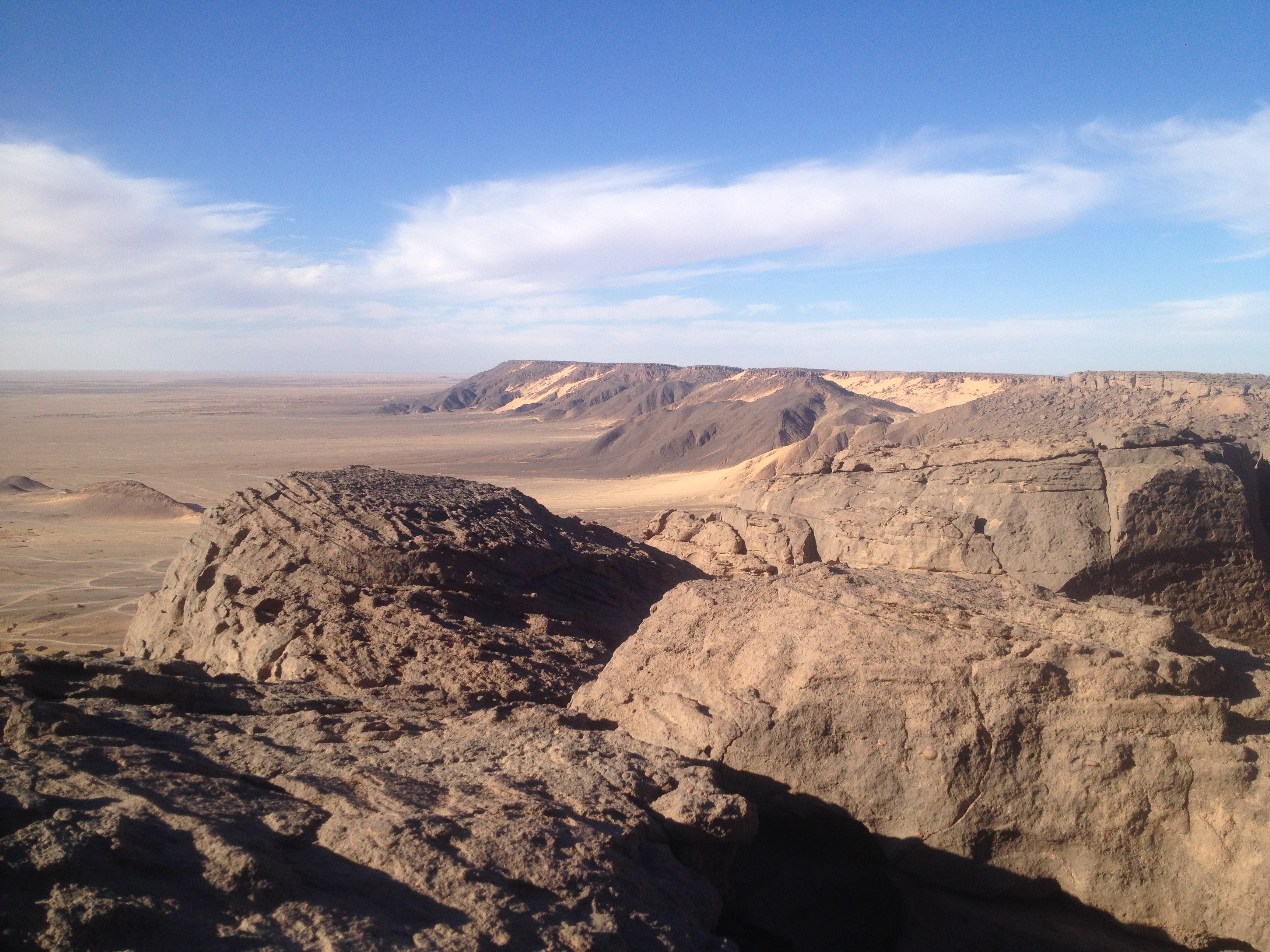 This is an image with the theme "Africa on the Move or Transport" from: Niger